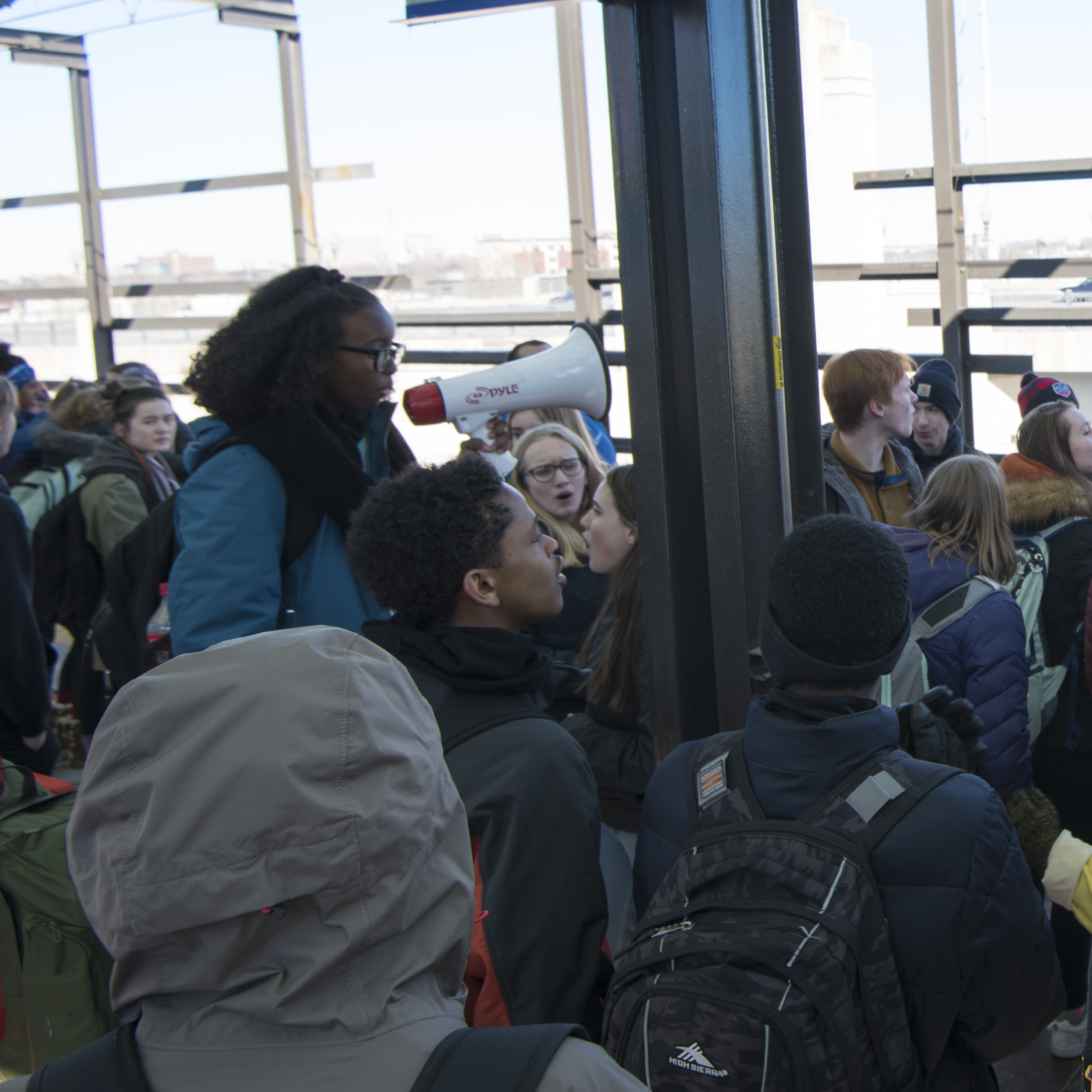 Minneapolis, Minnesota February 21, 2018 Isra Hirsi with megaphone Around 200 students from South High School went to Minneapolis City Hall to protest recent gun violence and call for gun law reform such as restricting the sale of assault rifles. They were joined there by students from other local high schools. They went into the streets and marched around city hall, then they marched into and out of city hall and then they marched around city hall again. Common chants included "Enough is enough" and "Gun reform now". 2018-02-21 This is licensed under the Creative Commons Attribution License. Give attribution to: Fibonacci Blue